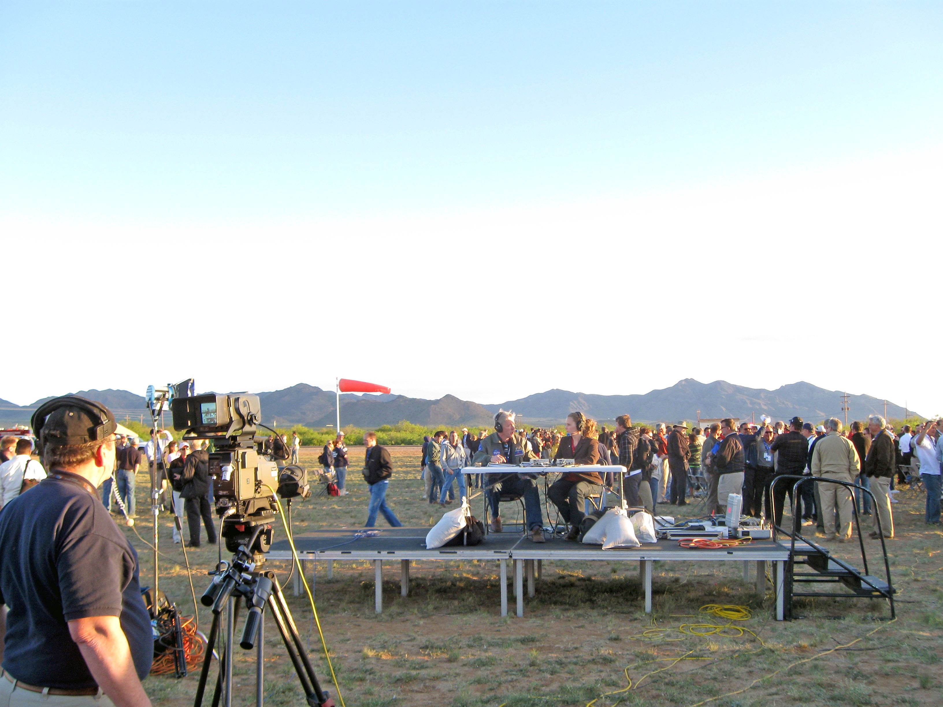 NASA TV broadcasting live from the Orion Pad Abort 1 test flight at White Sands Missile Range, New Mexico. On stage, left to right are Jay Estes (NASA deputy manager for the Orion Flight Test Office) and Kylie Clem (NASA Public Affairs Office).